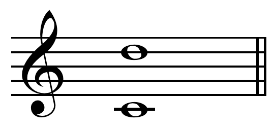 Major ninth on C = D'. Just: 9:4 = 1403.91 cents. Equal-tempered: 214/12:1 = 1400 cents.